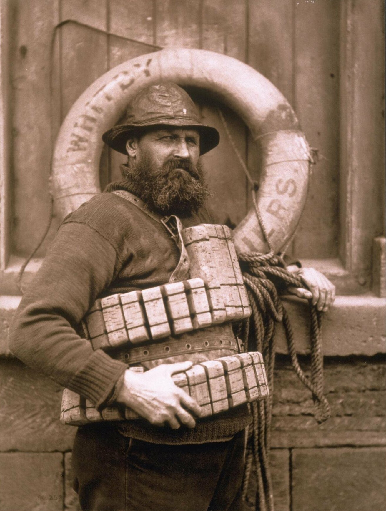 Henry Freeman, Whitby lifeboatman, wearing a cork lifejacket. He was the only survivor of a Whitby RNLI lifeboat capsizing because of the lifejacket.